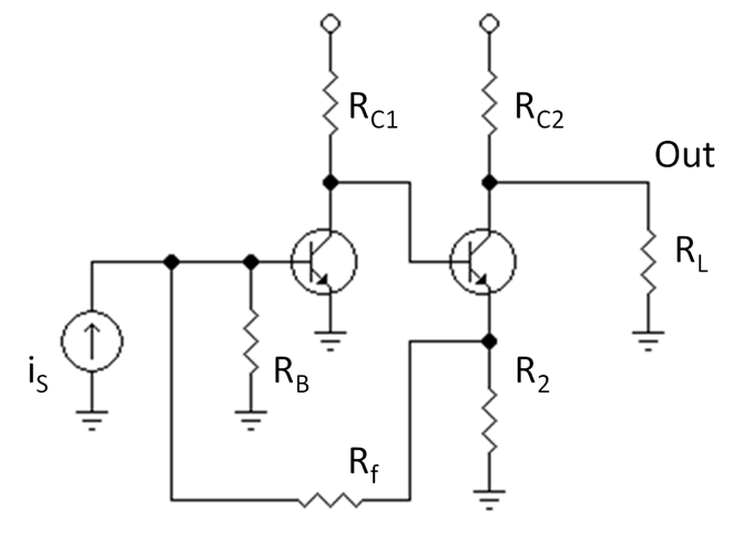 Two-transistor feedback amplifier